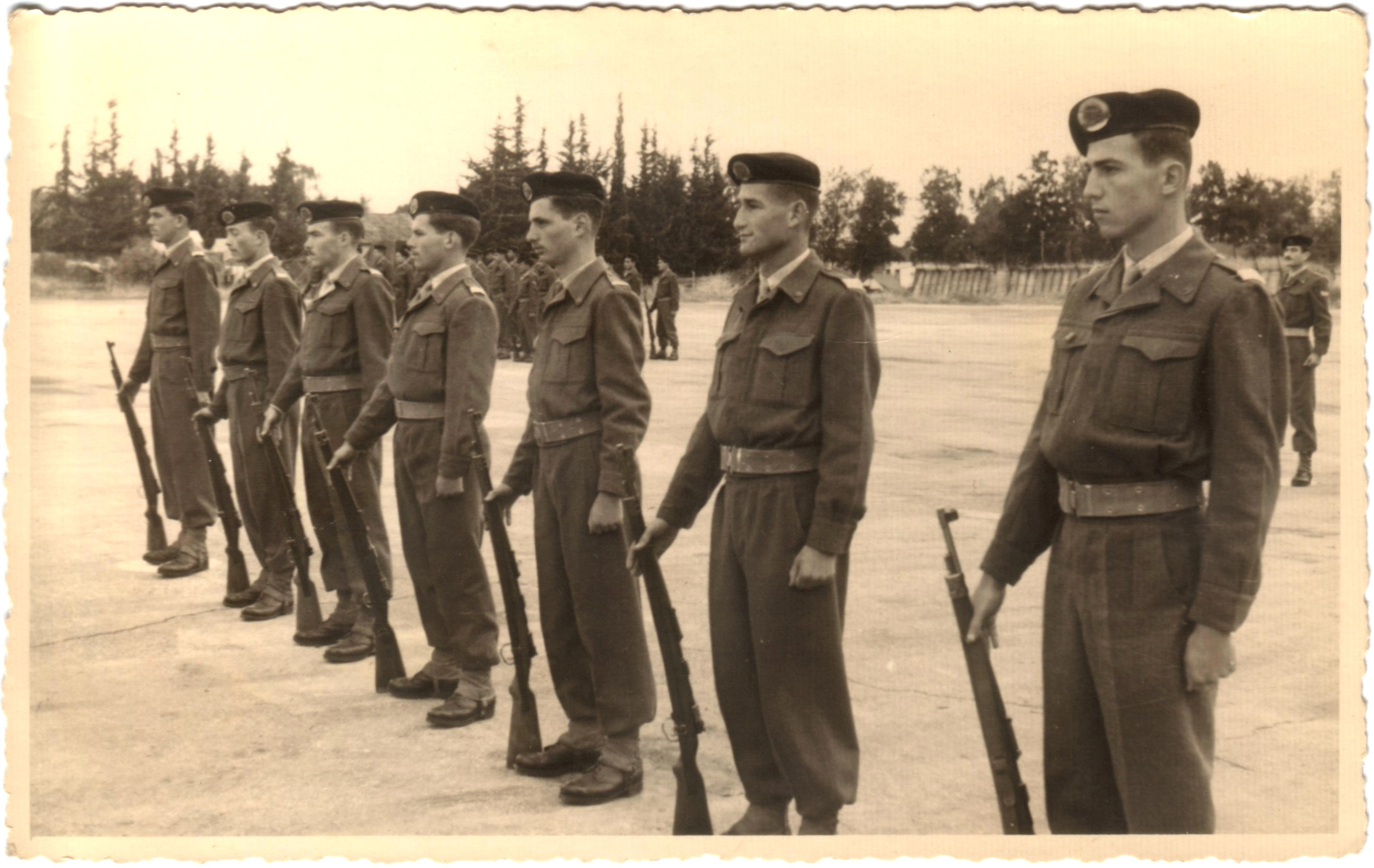 Israel Defense Forces